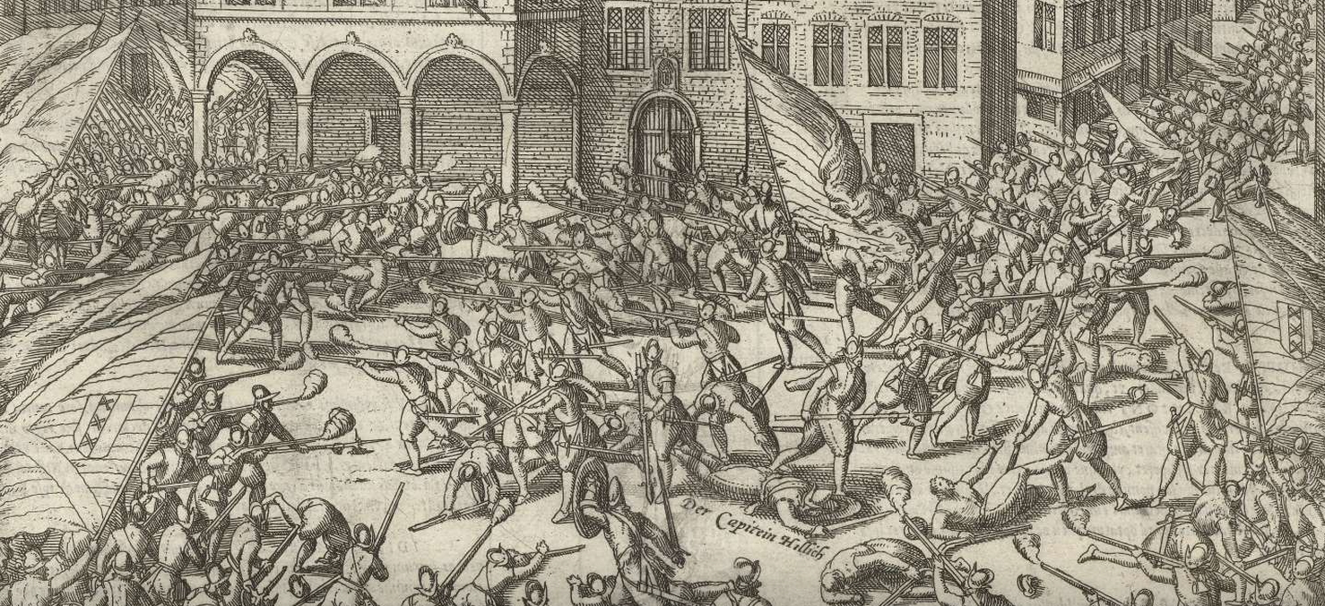 Attack on Amsterdam 1577